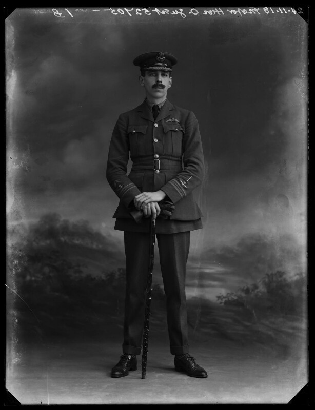 Portrait of Oscar Guest